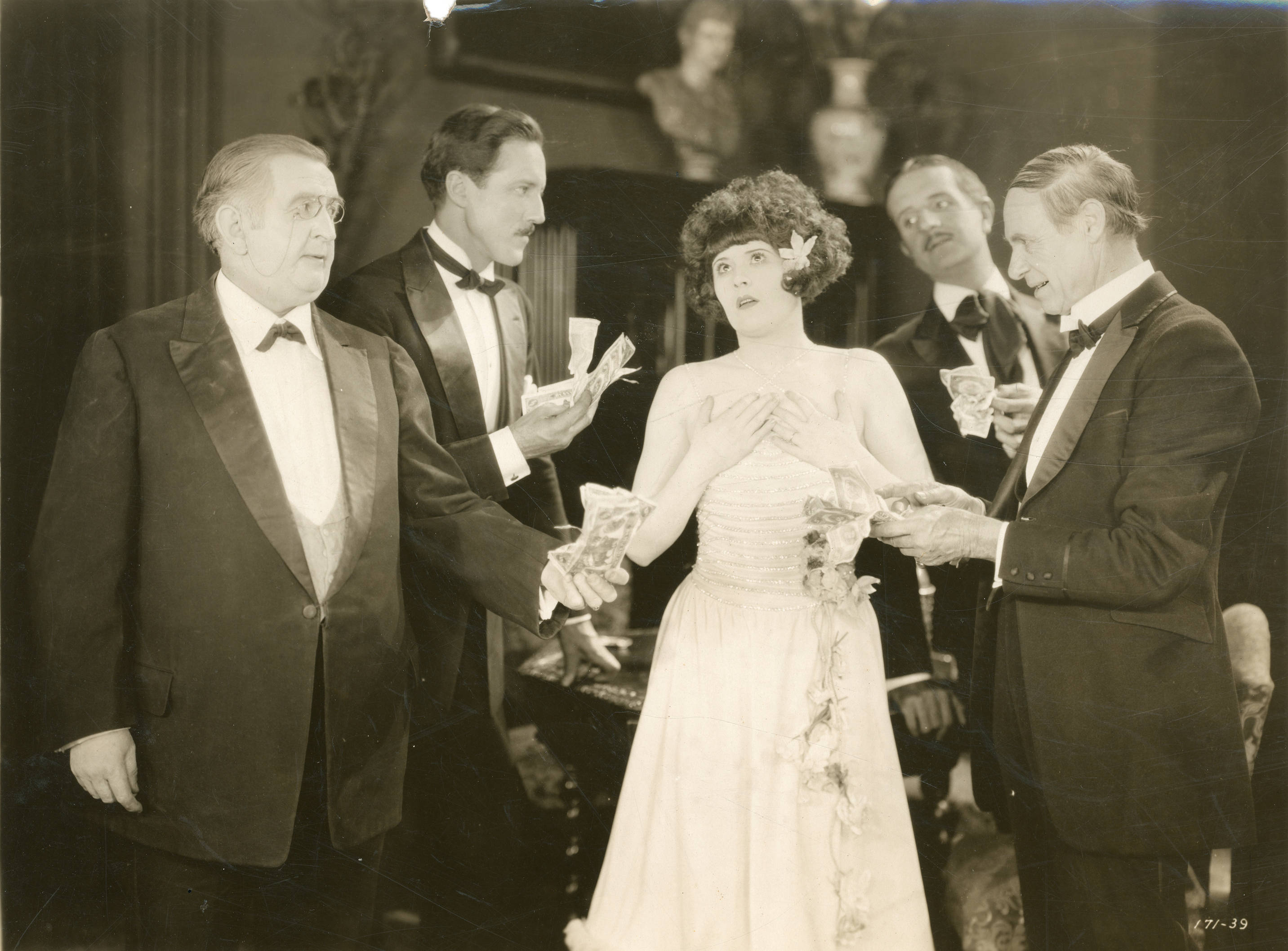 Still from the film The Chorus Lady (1924) with Margaret Livingston and Philo McCullough. Subjects: films, actresses